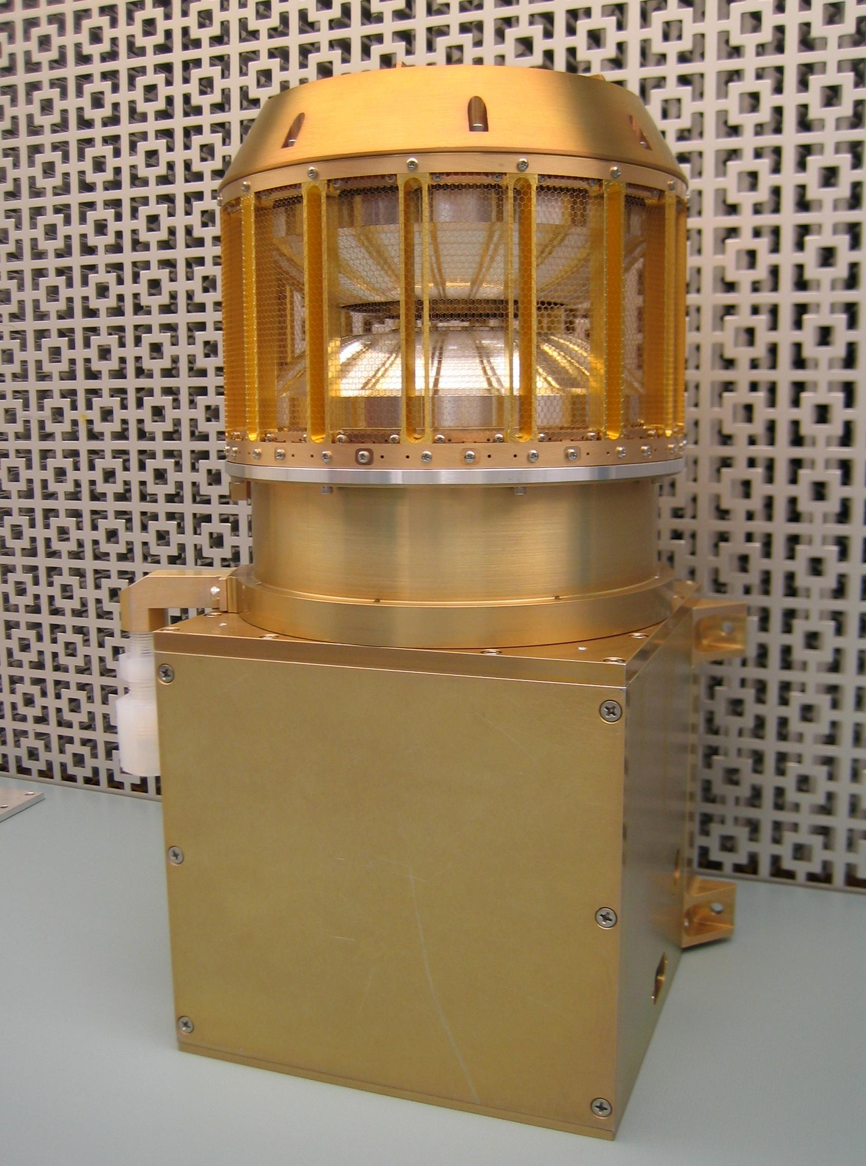 MAVEN instrument : SupraThermal And Thermal Ion Composition (STATIC)